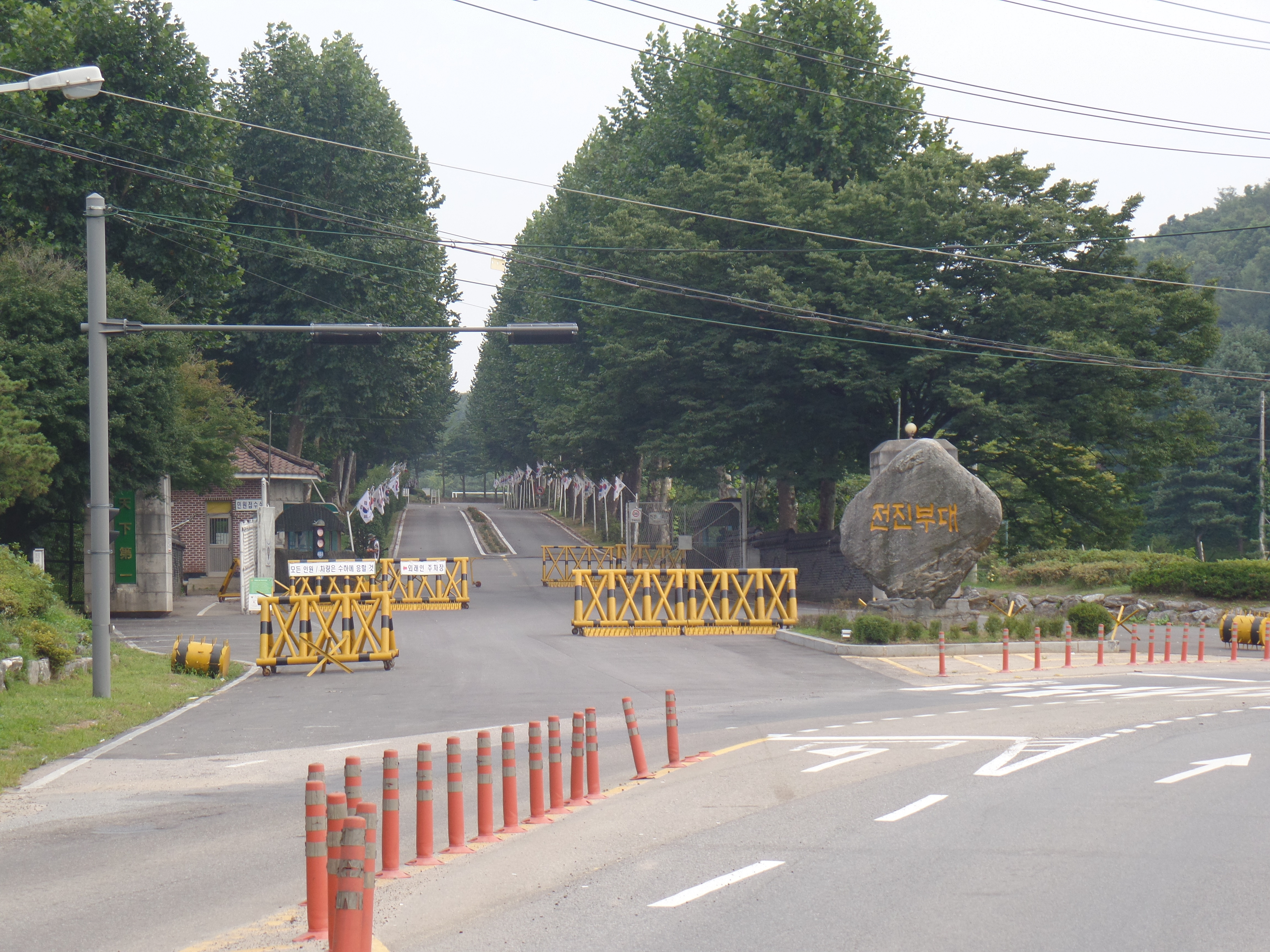 Main gate of Republic of Korea Army 1st Infantry Division